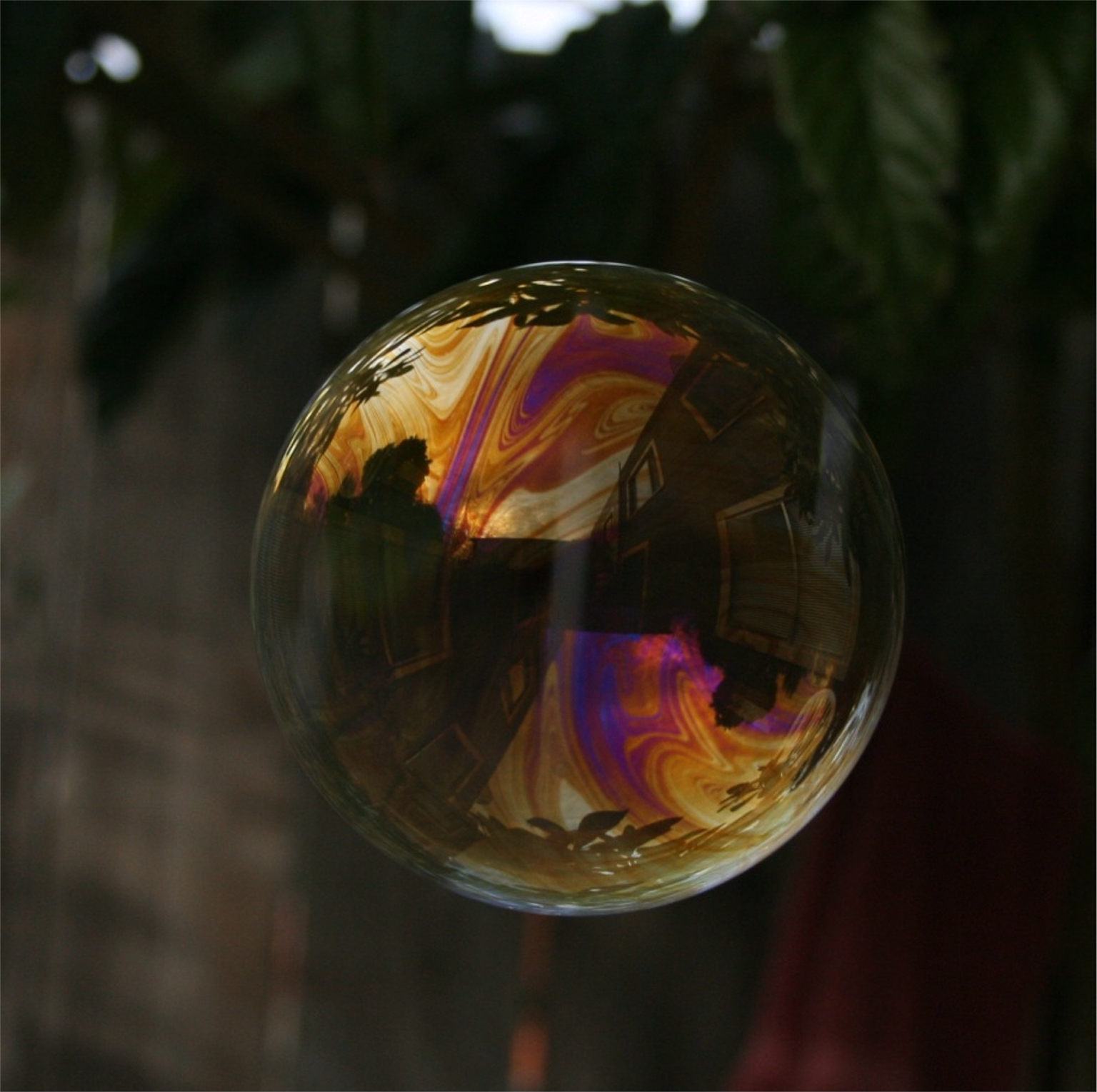 Reflection in a Soap Bubble